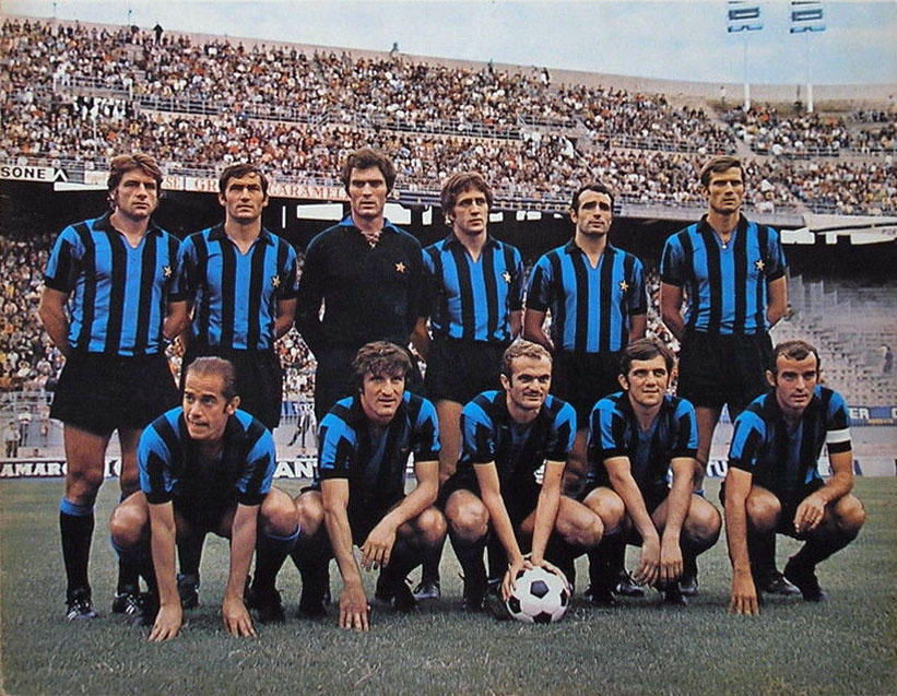 A line-up of Inter Milan in the 1969–70 season, posing inside the San Siro in Milan, Italy.